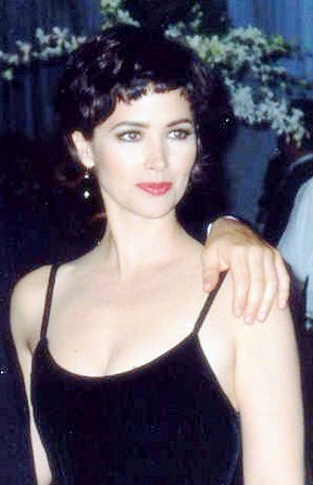 Photo taken at the 45th Emmy Awards 9/19/93- Governor's Ball.